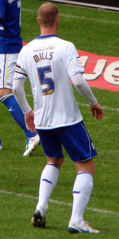 25/09/11 Cardiff V Leicester, Championship, Cardiff City Stadium, Cardiff, Wales (Image cropped from original at Flickr)